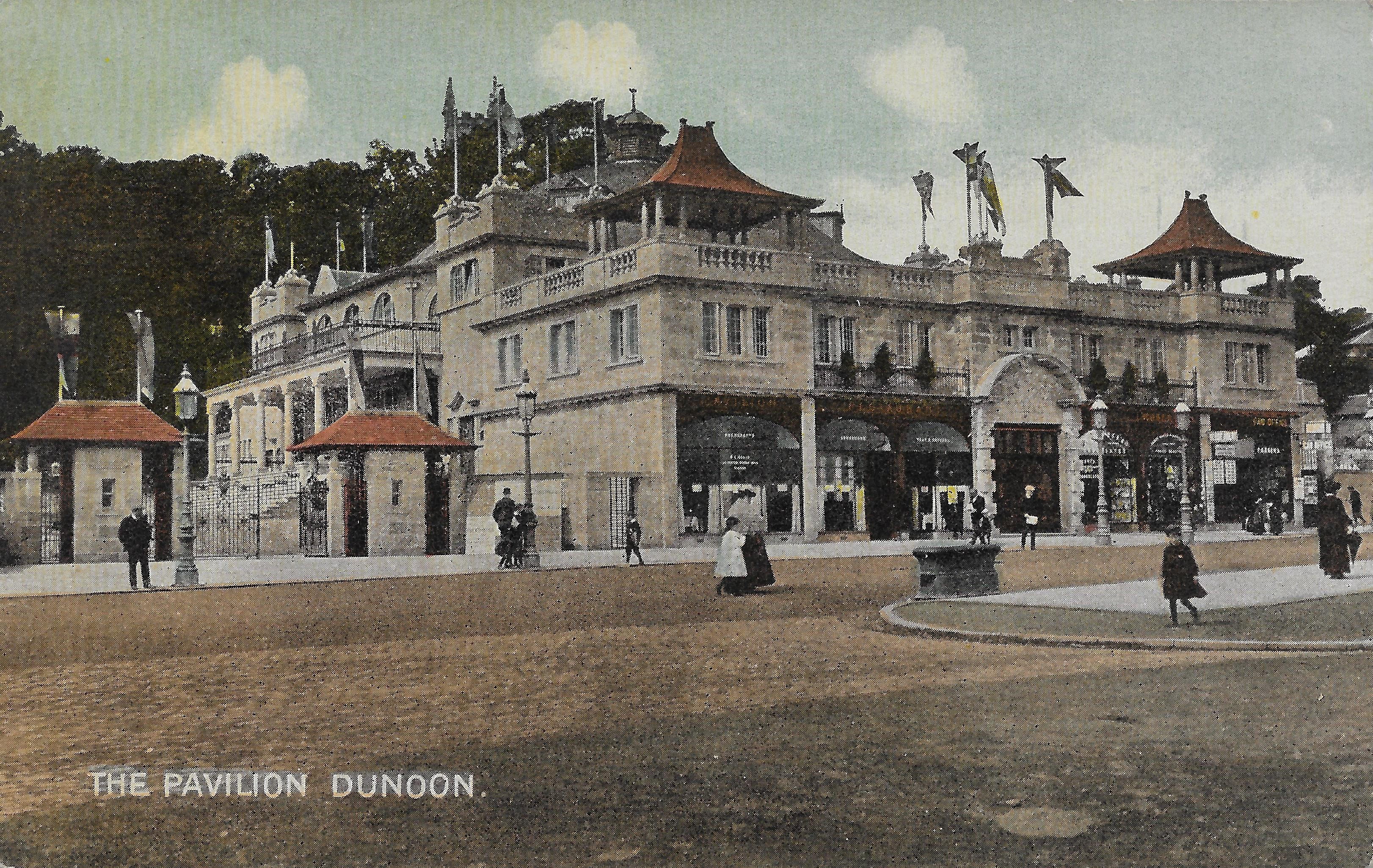 The Dunoon Pavilion, which was designed by Scottish architect William Fraser, opened in 1905 and served as the town’s multi-function hall. Located on Pier Road at the head of Dunoon Pier in downtown Dunoon, the Pavilion was damaged by fire and demolished in the late 1950s.